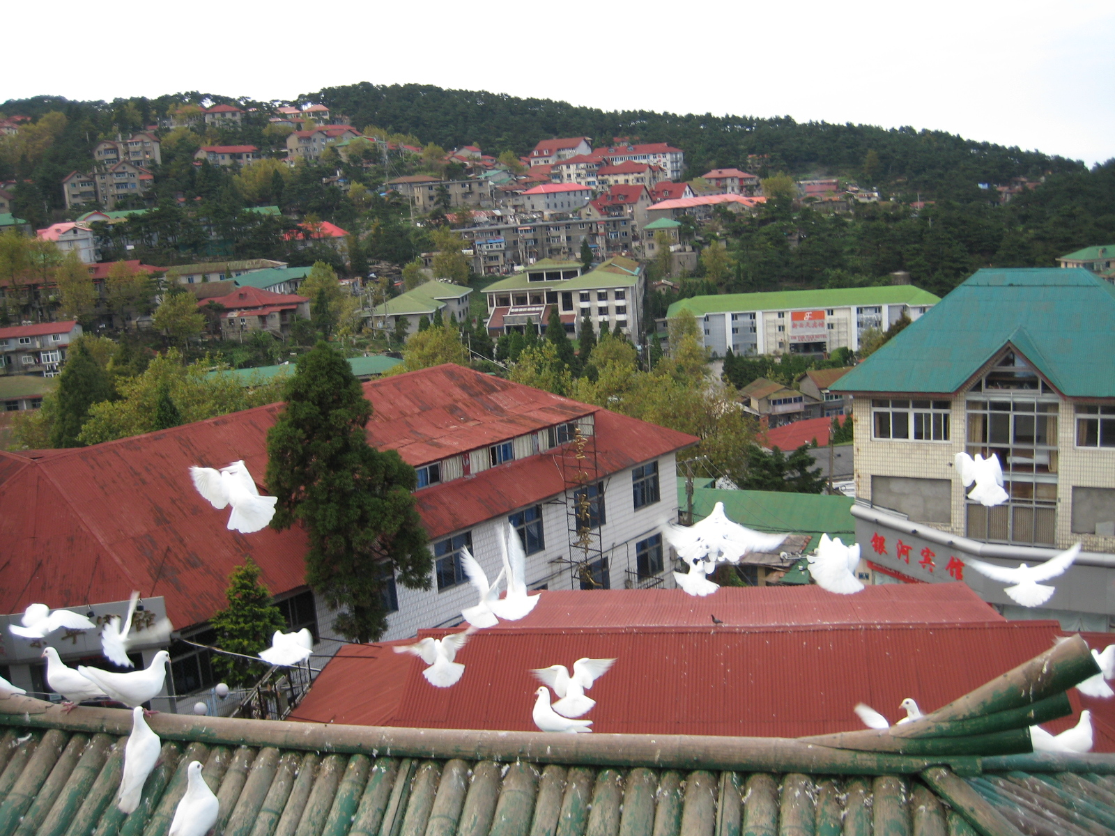 Kuling is the resort town of Lushan